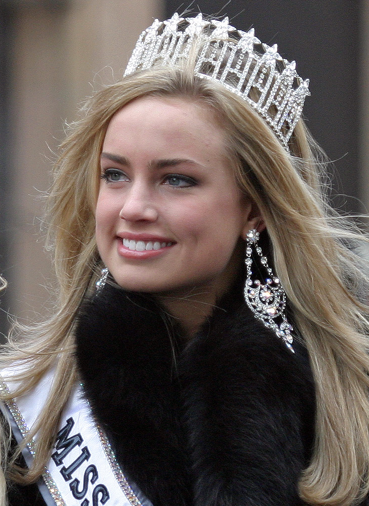 Kaylee Unverzagt, Miss Minnesota USA 2008 in the Saint Paul Winter Carnival Grande Day Parade